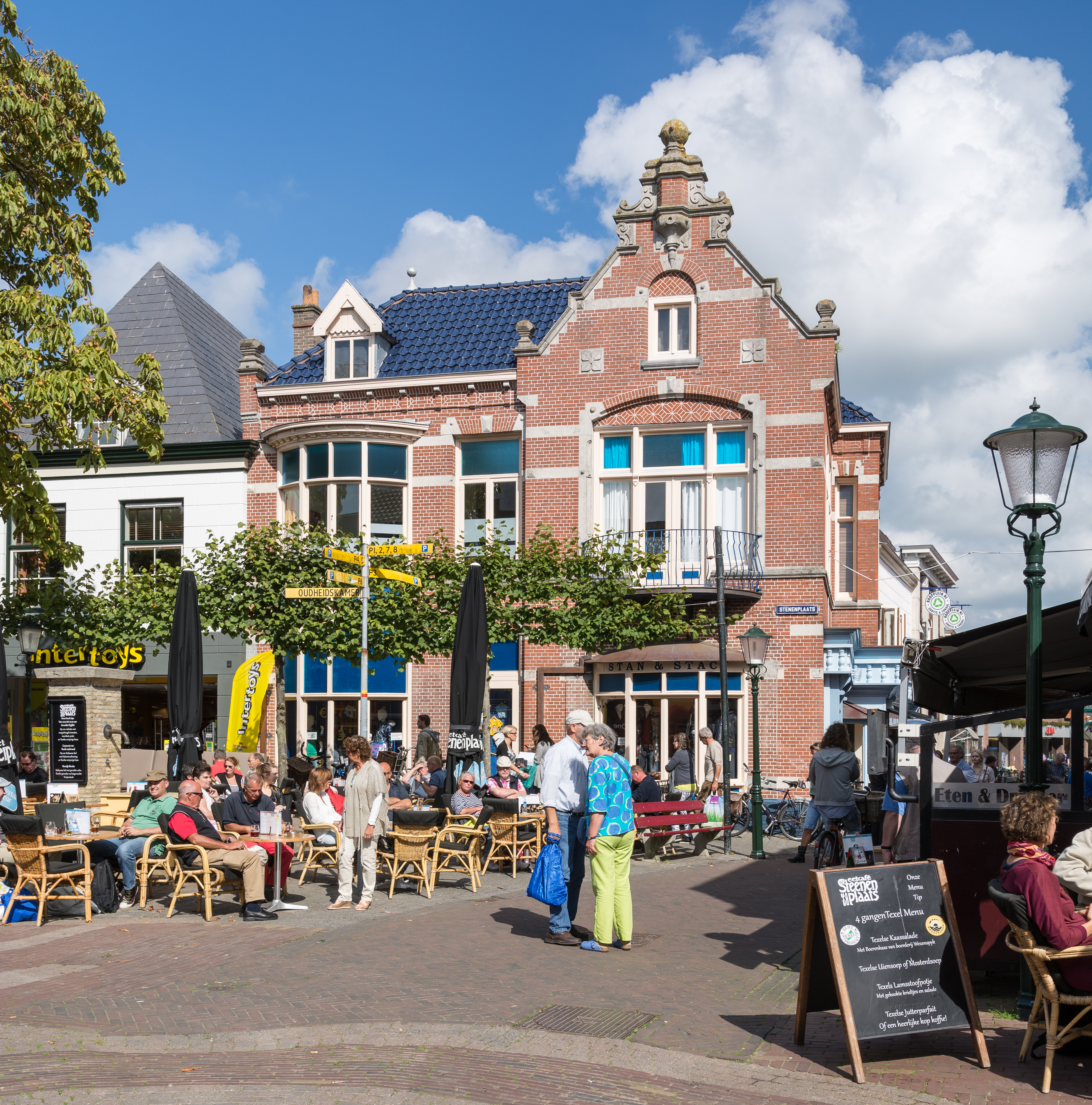 View of Stenenplaats in Den Burg, Texel